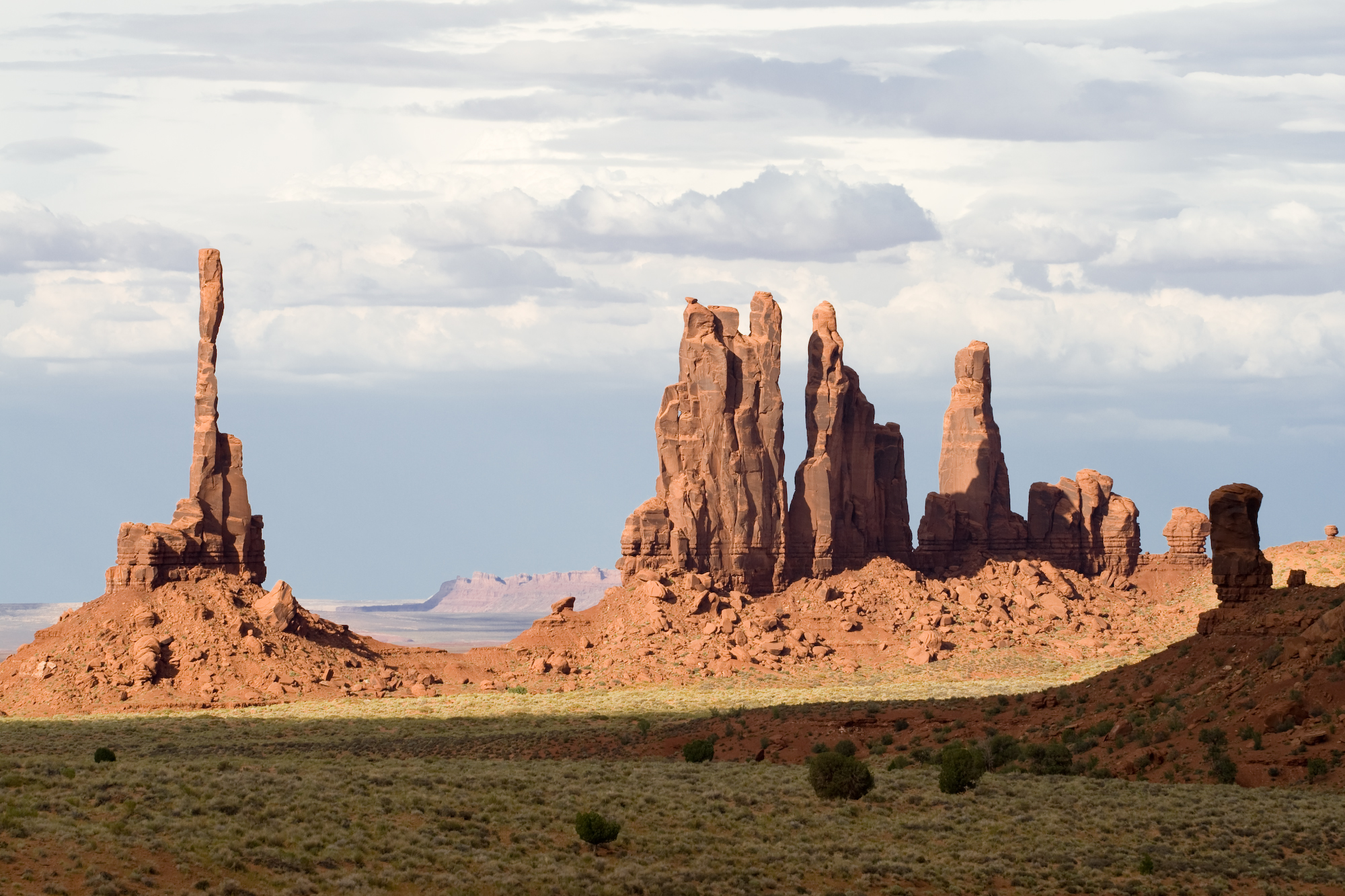 Totem Pole formation in Monument Valley Navajo Tribal Park. Monument Valley is located on the southern border of Utah with northern Arizona, USA.